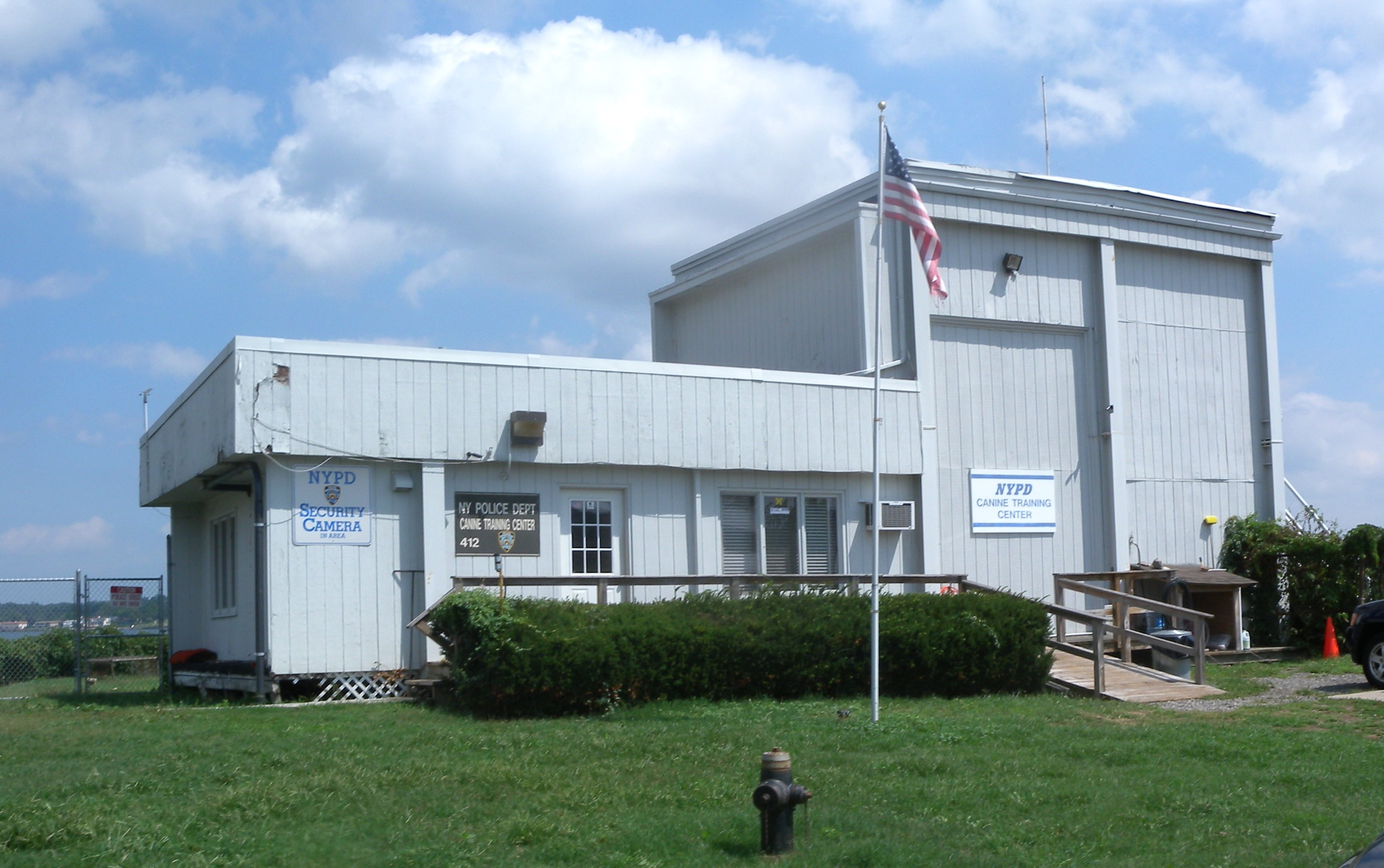 Looking east at K9 training school building in eastern Ft Totten on a sunny midday.